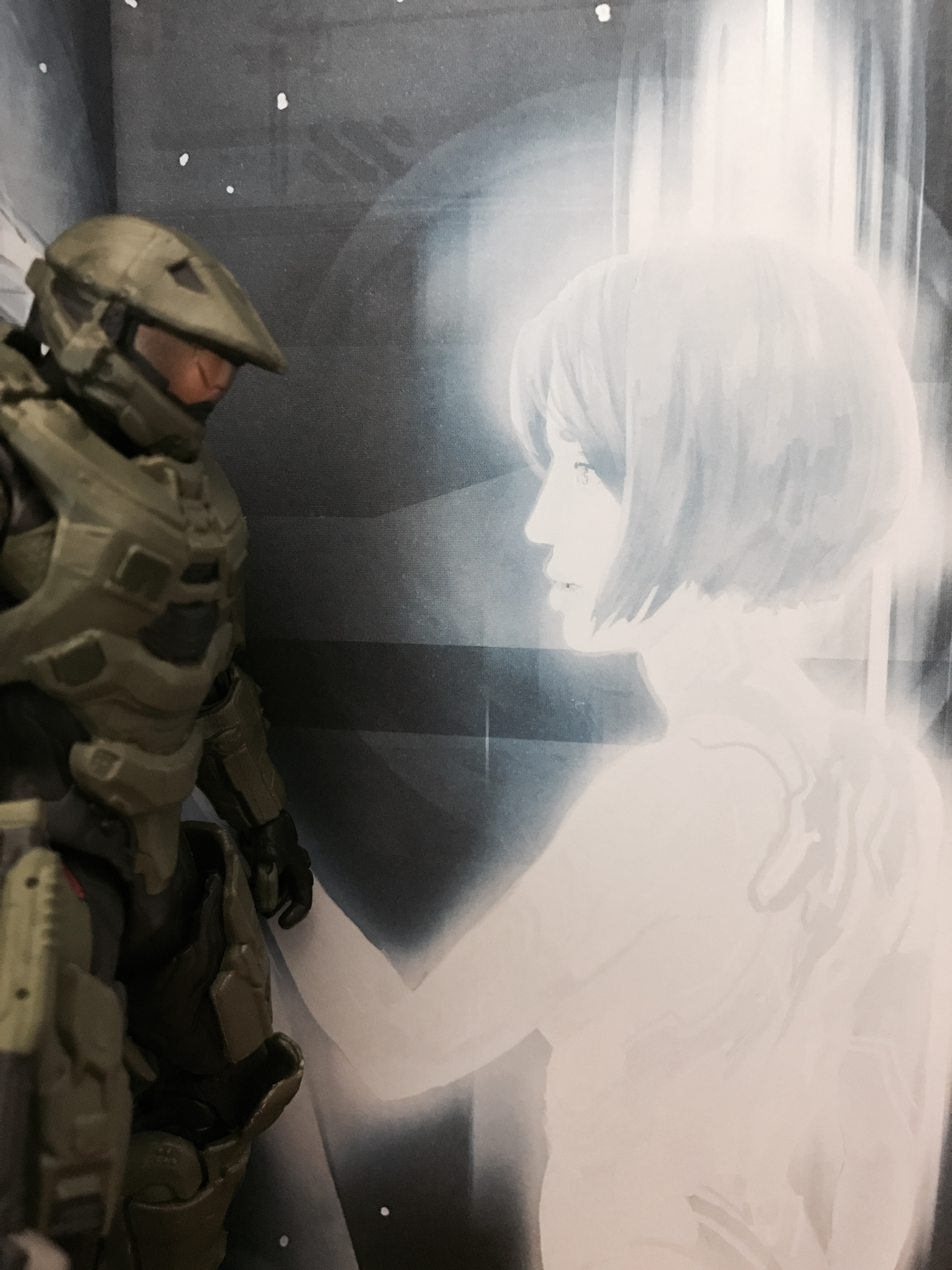 Master Chief and Cortana